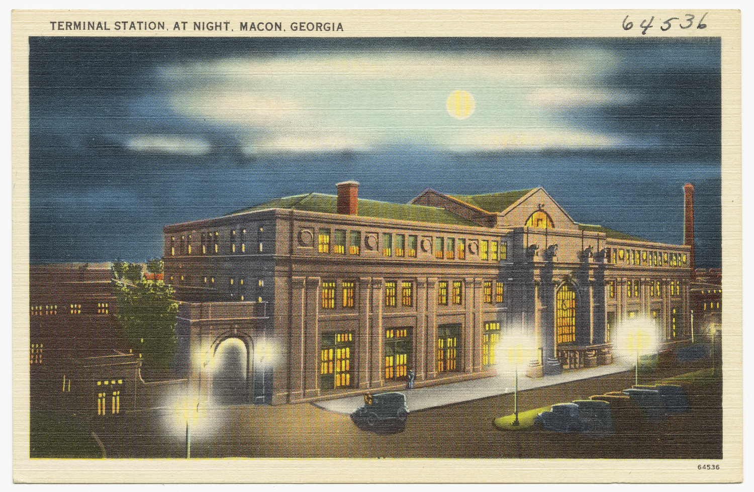 File name: 06_10_014115 Title: Terminal Station, at night, Macon, Georgia Date issued: 1930 - 1945 (approximate) Physical description: 1 print (postcard) : linen texture, color ; 3 1/2 x 5 1/2 in. Genre: Postcards Subject: Railroad stations Notes: Title from item. Collection: The Tichnor Brothers Collection Location: Boston Public Library, Print Department Rights: No known restrictions